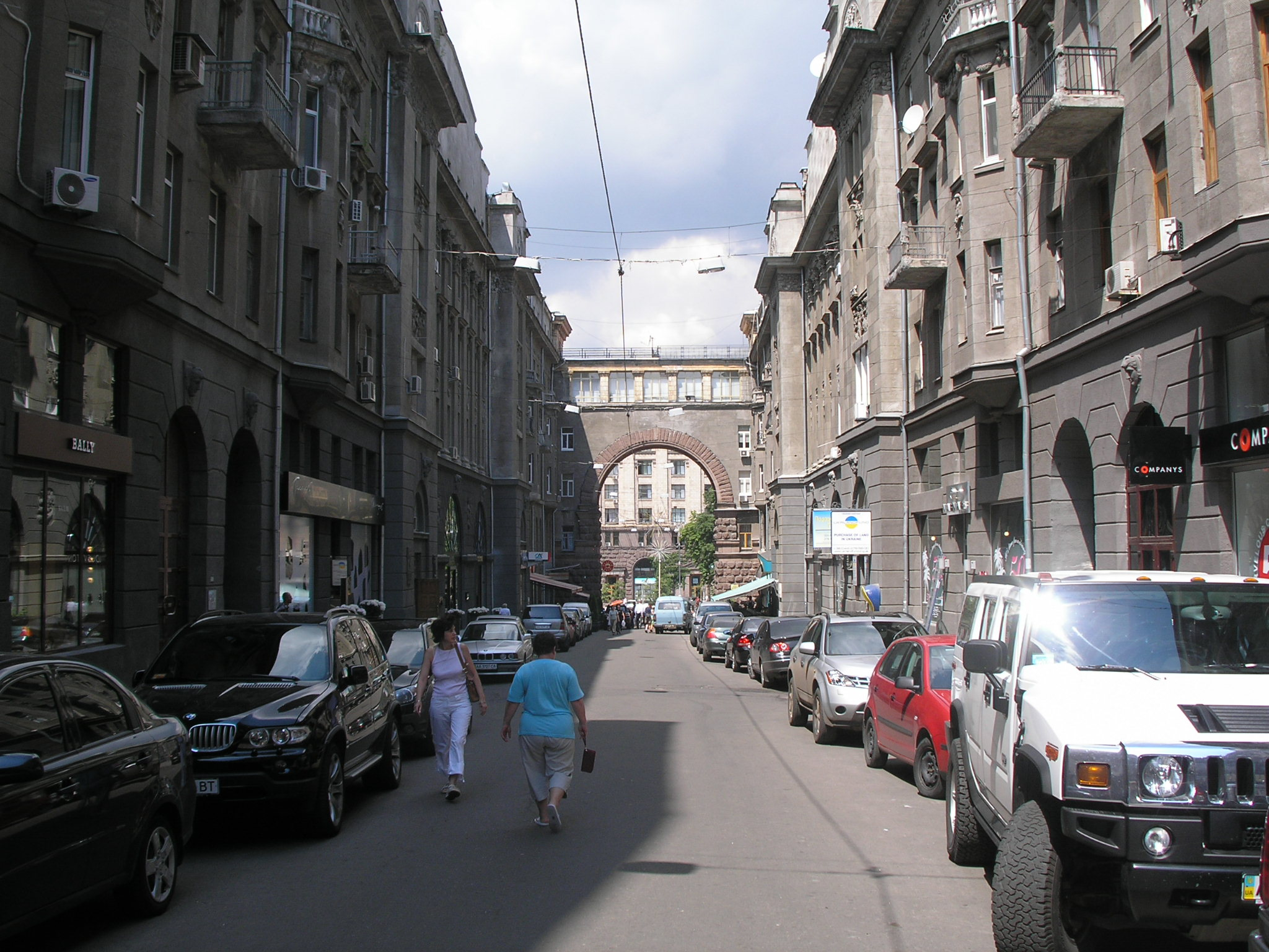 Inside the Kiev Passage near the Khreschatyk street in Kiev, Ukraine.